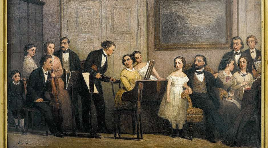 Music evening in the home of the banker Martin Henriques at Tordenskjoldsgade 1 in Copenhagen, Denmark.